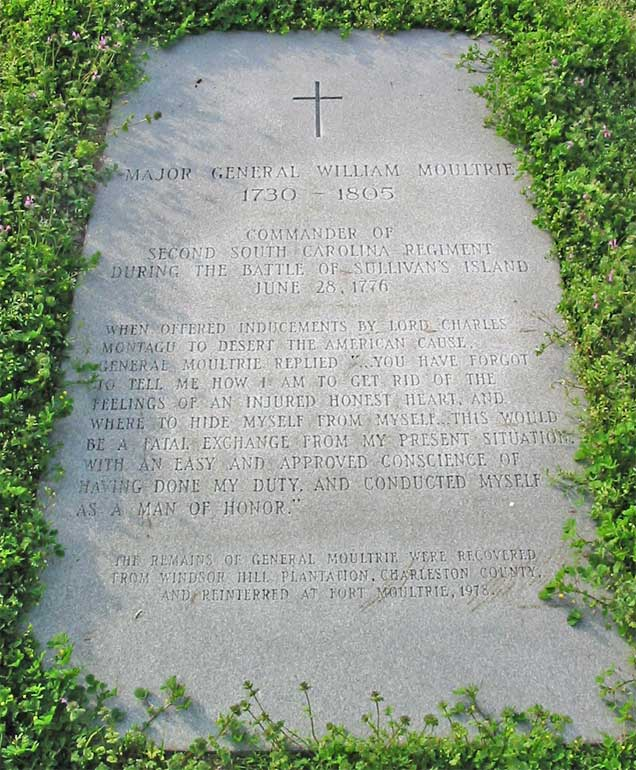 Grave of William Moultrie, near Fort Moultrie, South Carolina